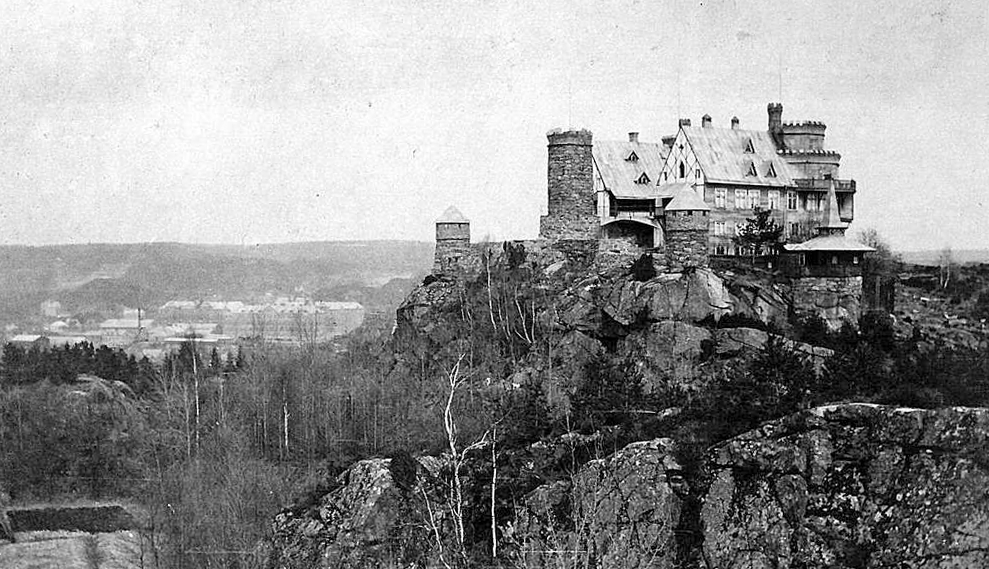 Originally from . Created between 1910-1925 according to the website, author unknown. The image has been cropped to remove watermark and somewhat rotated.